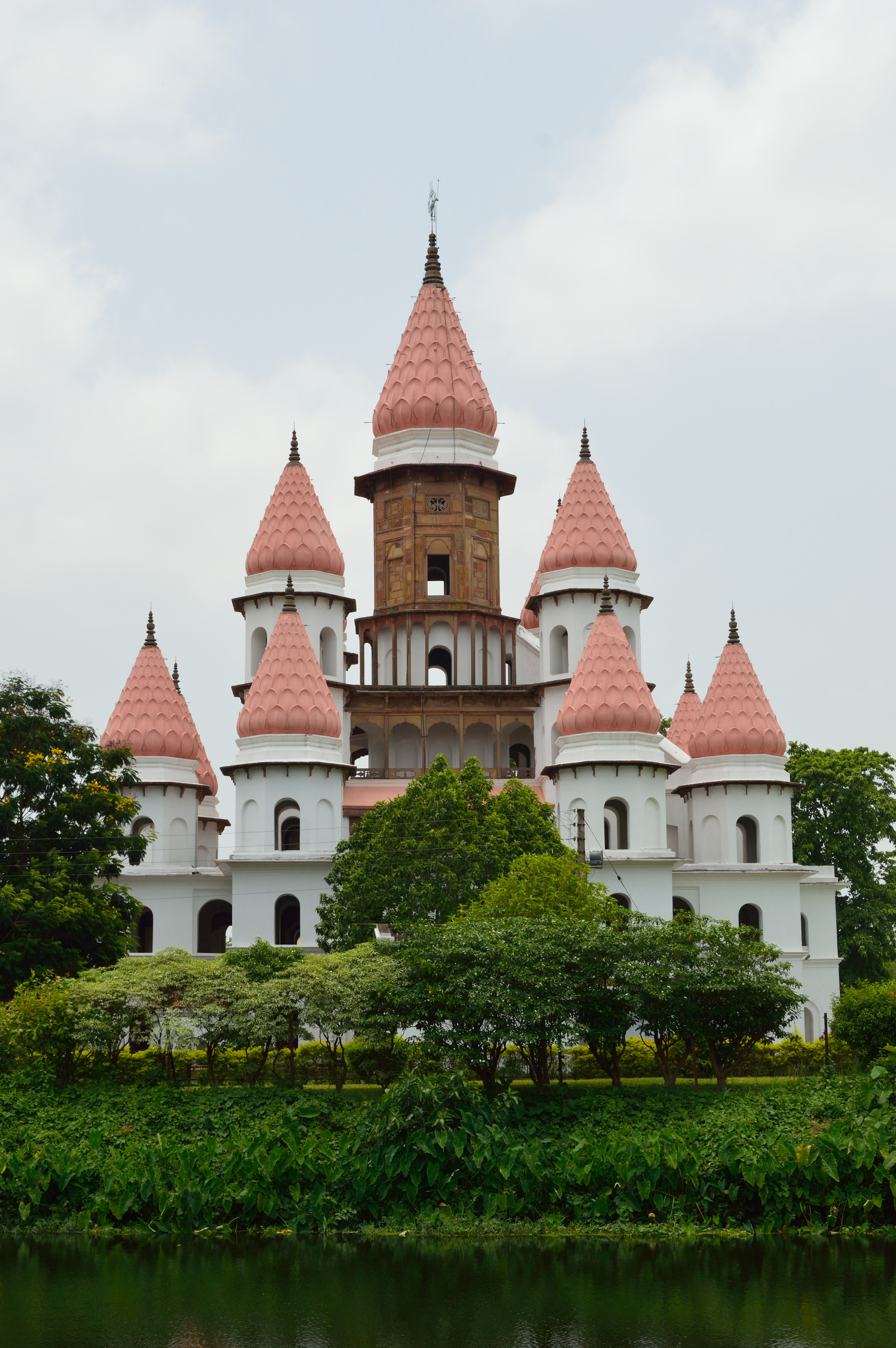 The Hanseswari temple at the Hanseswari and Vasudeva temples site at the Bansberia Royal Estate, Hooghly, West Bengal, India.